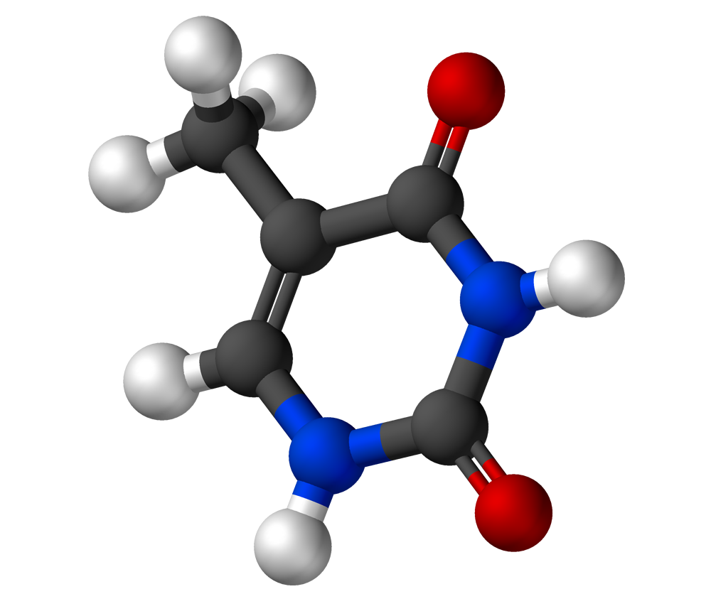 3D balls - Thymine Color code: Carbon, C: black Hydrogen, H: white Oxygen, O: red Nitrogen, N: blue